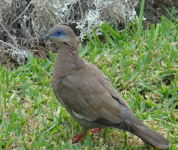 The Pacific or West Peruvian Dove has adopted Lima, where it is cursed or loved as Cuculi. In context at